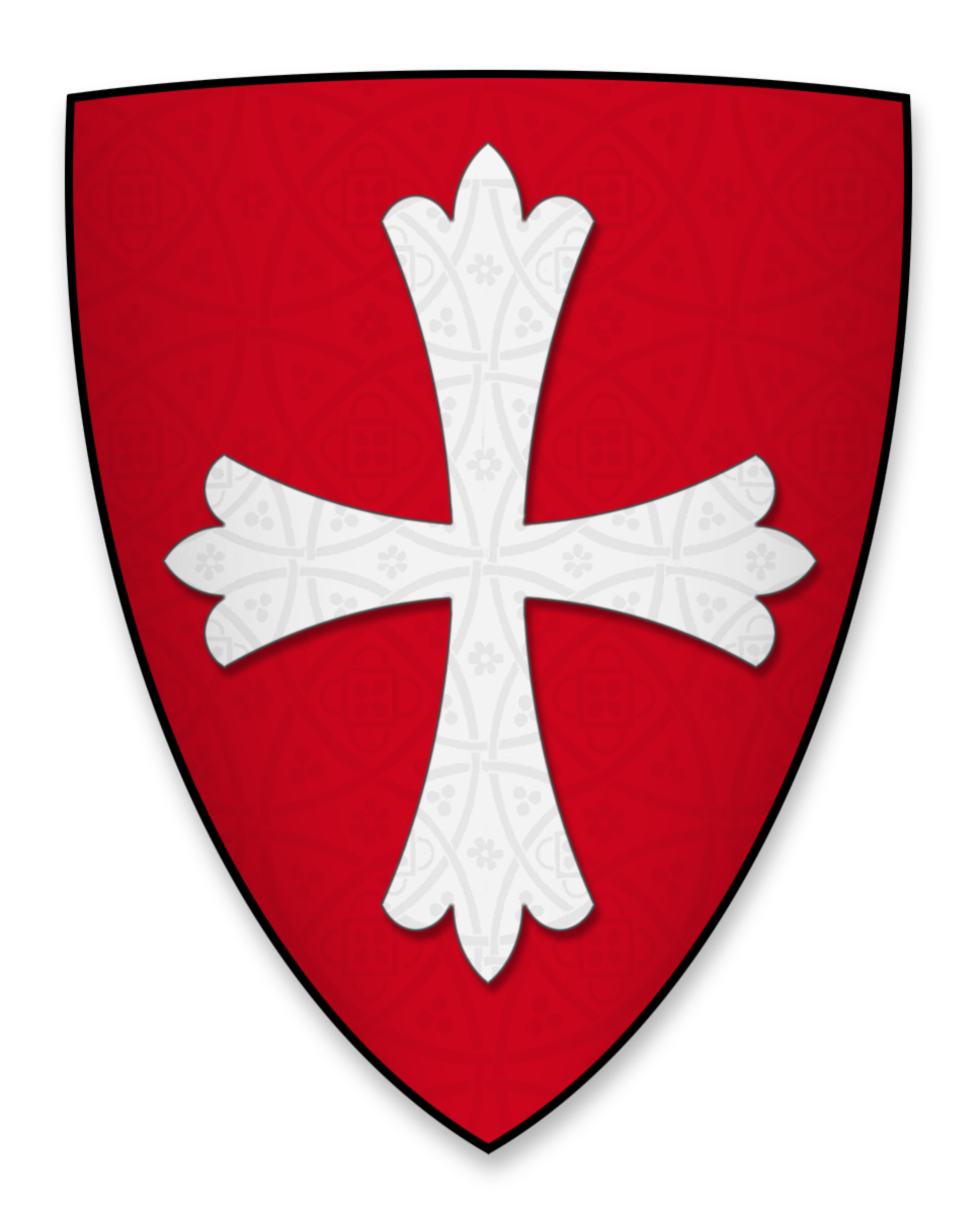 Coat of arms of Eustace de Vescy, Lord of Alnwick Castle